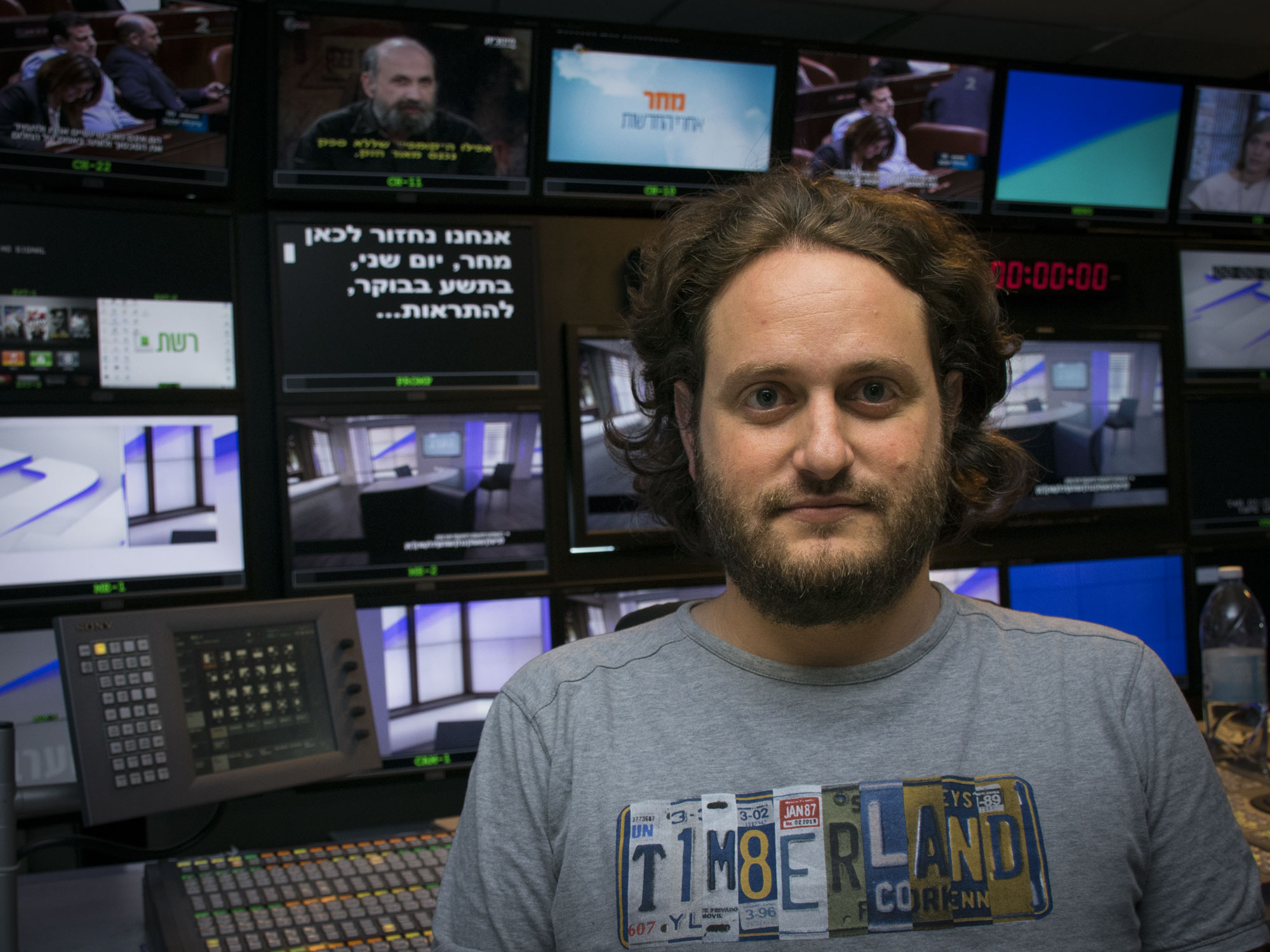 Yoav Ribak